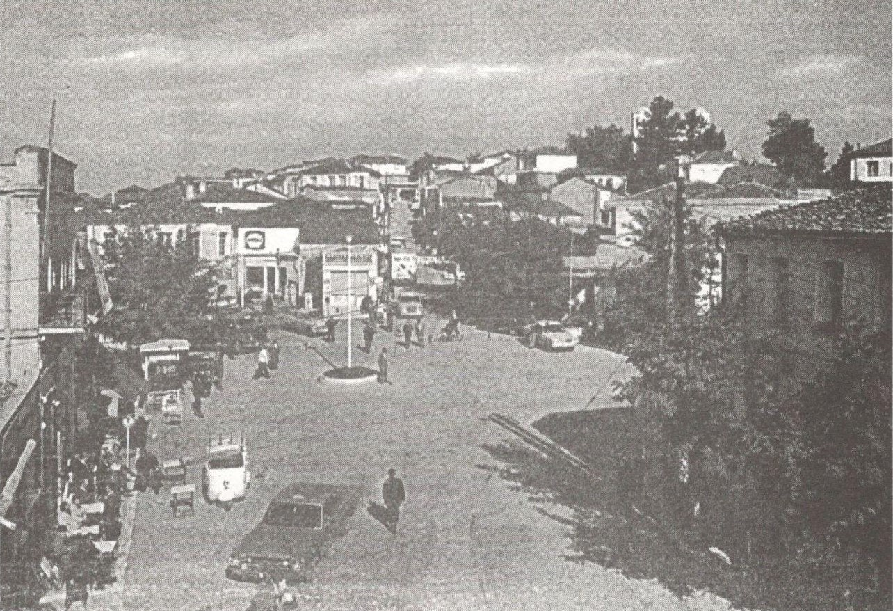 An older photography of the center of Hrupishta (Άργος Ορεστικό) in Aegean Macedonia